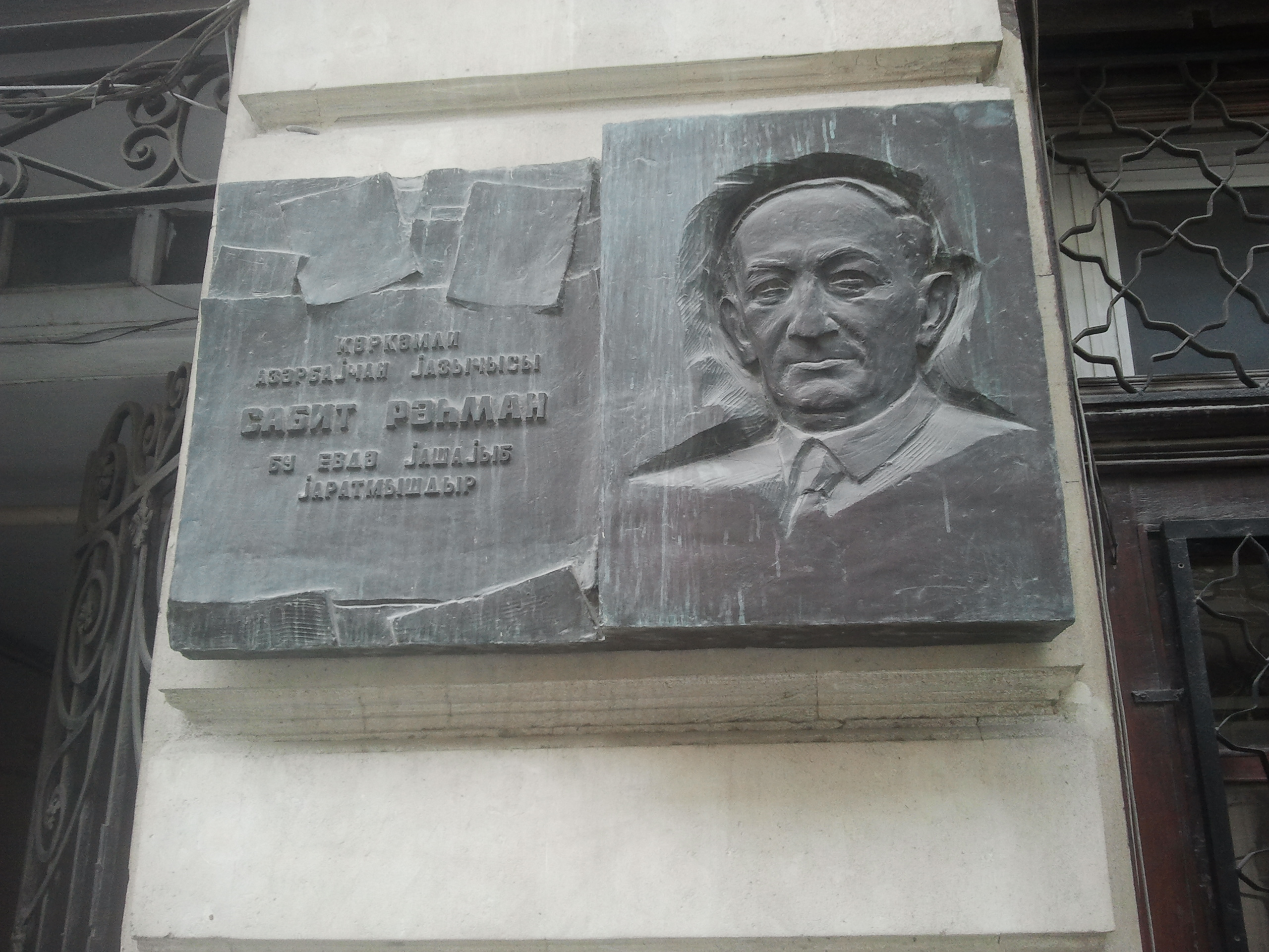 Plaque on building where Azerbaijani writer and playwright Sabit Rahman lived in Baku